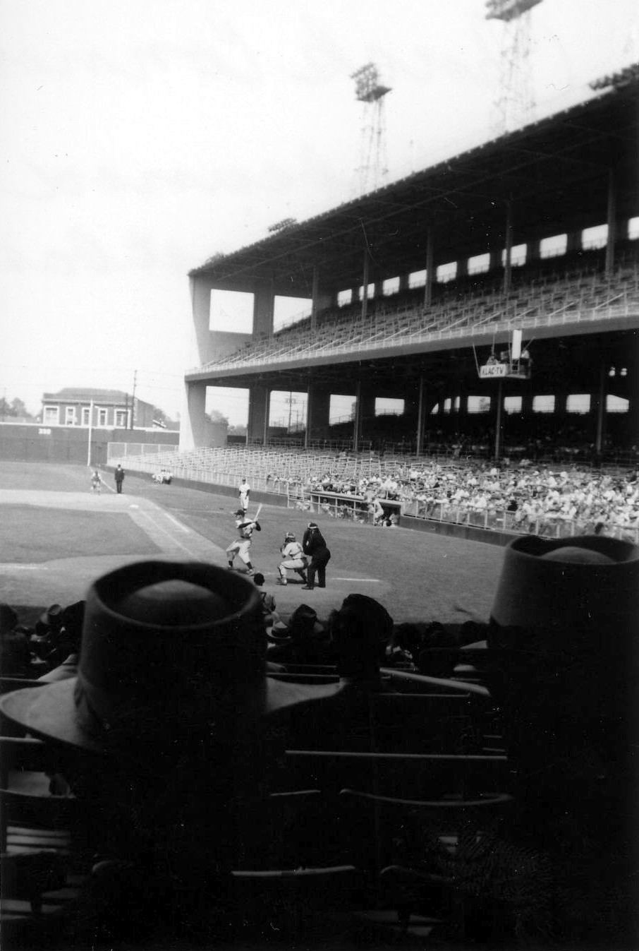 Chuck Conners is at bat for the L.A. Angels minor league team. Taken by my husband.